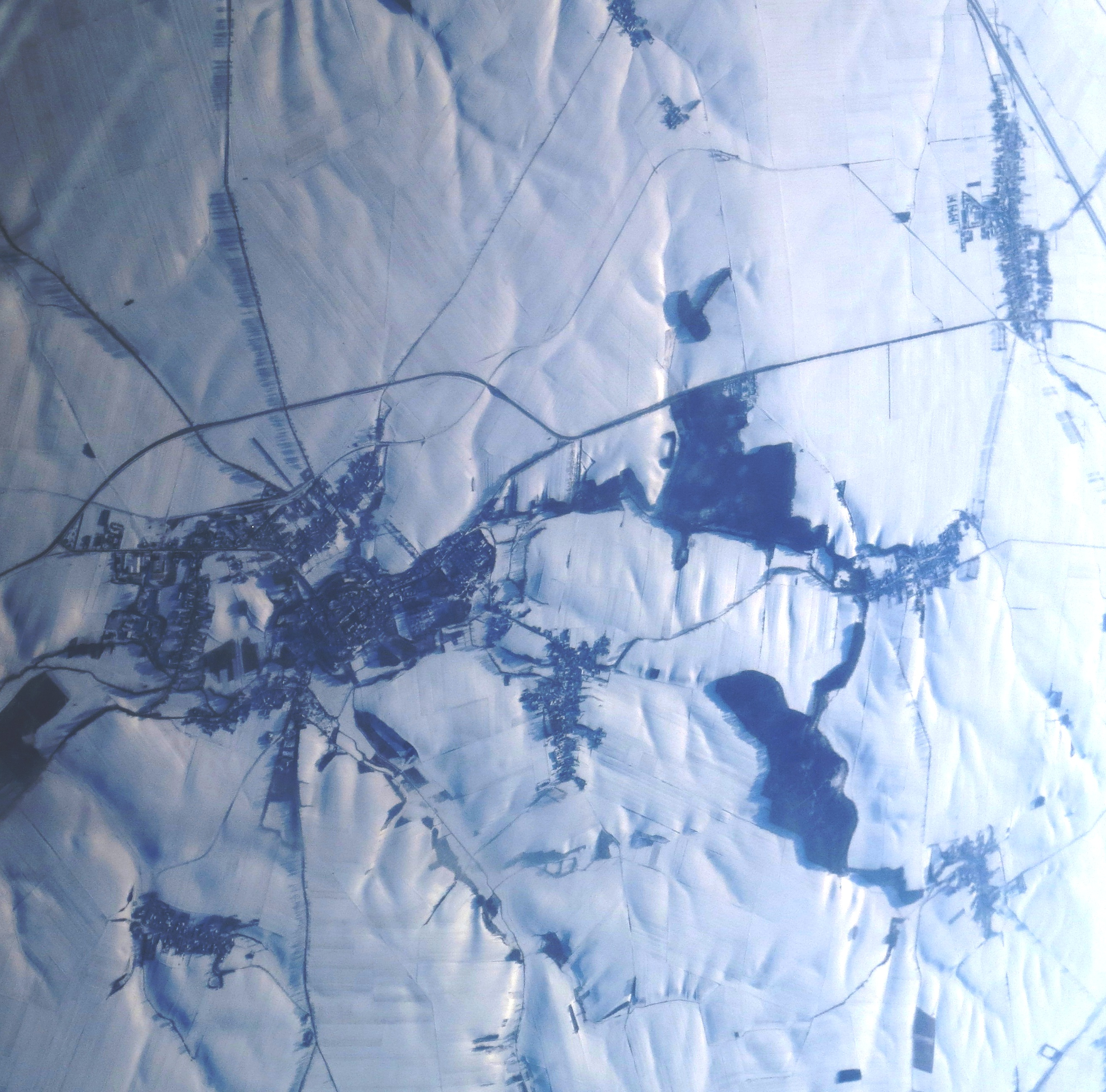 Aerial view from Southern Poland - the village Biała in the foreground, and Prudnik in background.